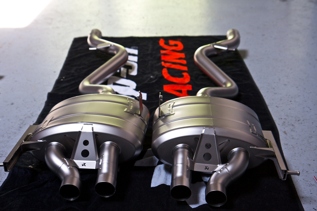 Akrapovic Slip-On exhaust system for the BMW E92 M3. The material is titanium.[1]